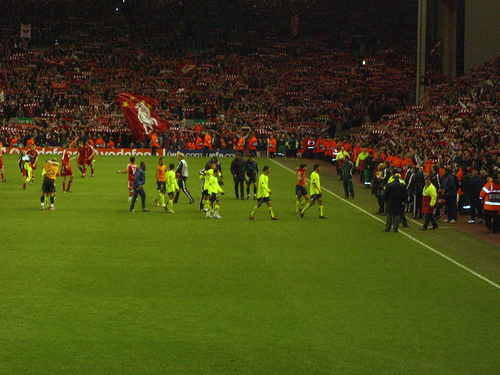 Champions league 2006-07 match. Liverpool FC - FC Barcelona.